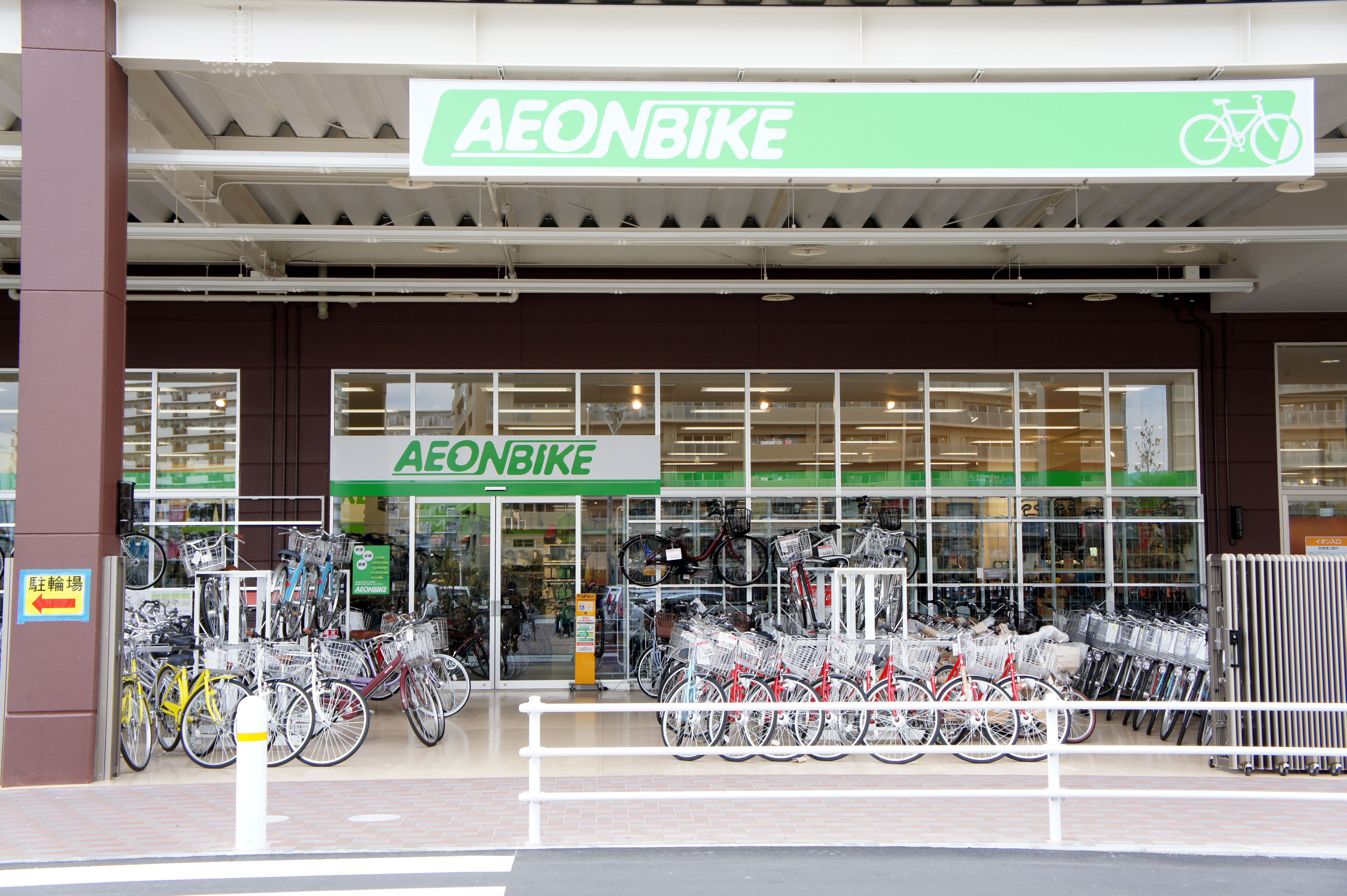 AEON BIKE Itami Koya,4-1-1 Ikejiri Itami-City Hyogo JAPAN.